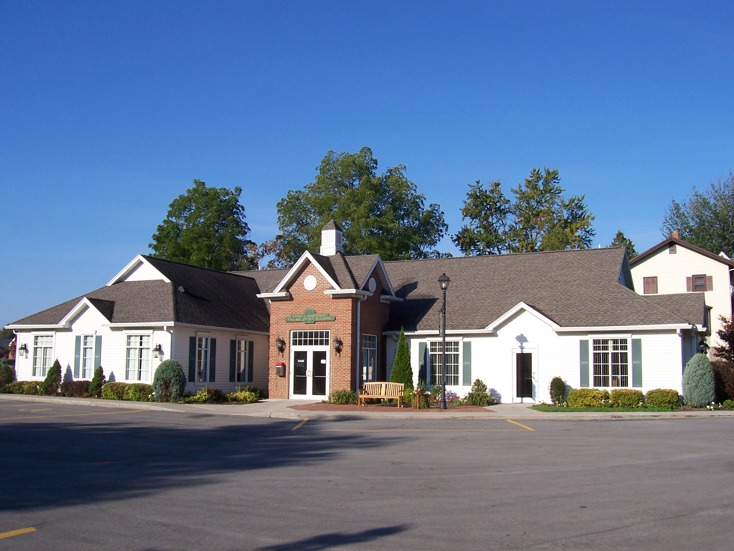 Churchville, New York village hall